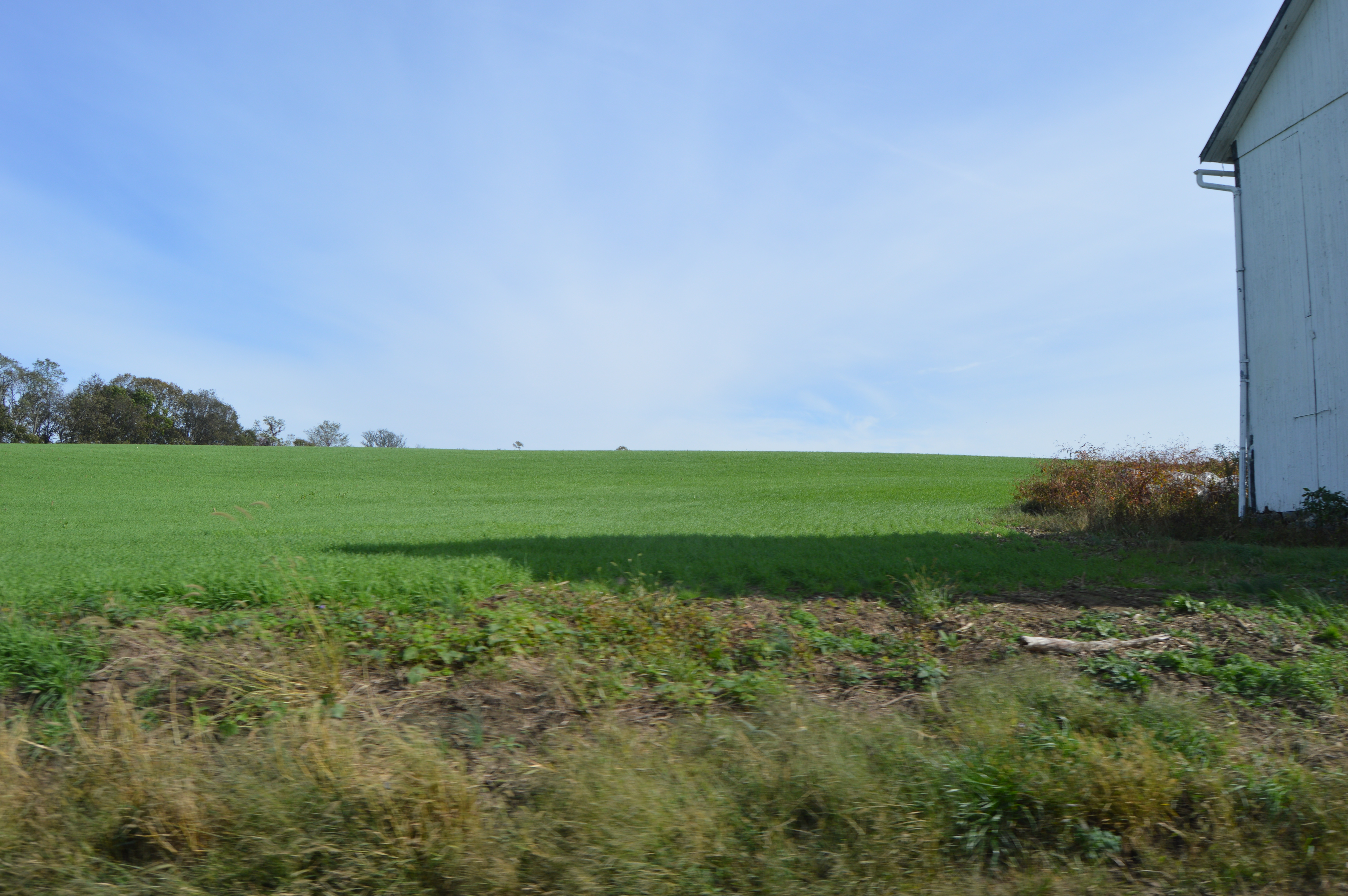 Overview of fields at the Strickler Site, looking east from River Road south of Washington Boro in Manor Township, Lancaster County, Pennsylvania, United States. Once a village of the |Susquehannock|Conestoga Indians , it is now a significant archaeological site, and it has been listed on the National Register of Historic Places.